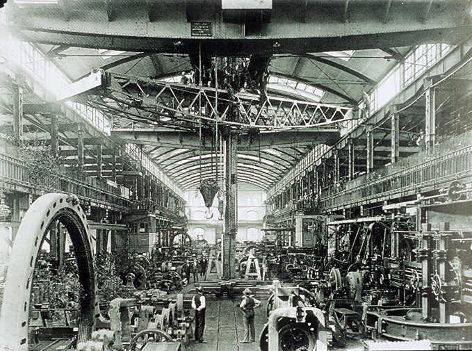 AEG-Turbinenhalle, Interior, Berlin - This photograph does not show the famous AEG-Turbinenhalle, built 1908-1909 by Peter Behrens – which has a clearly different construction.